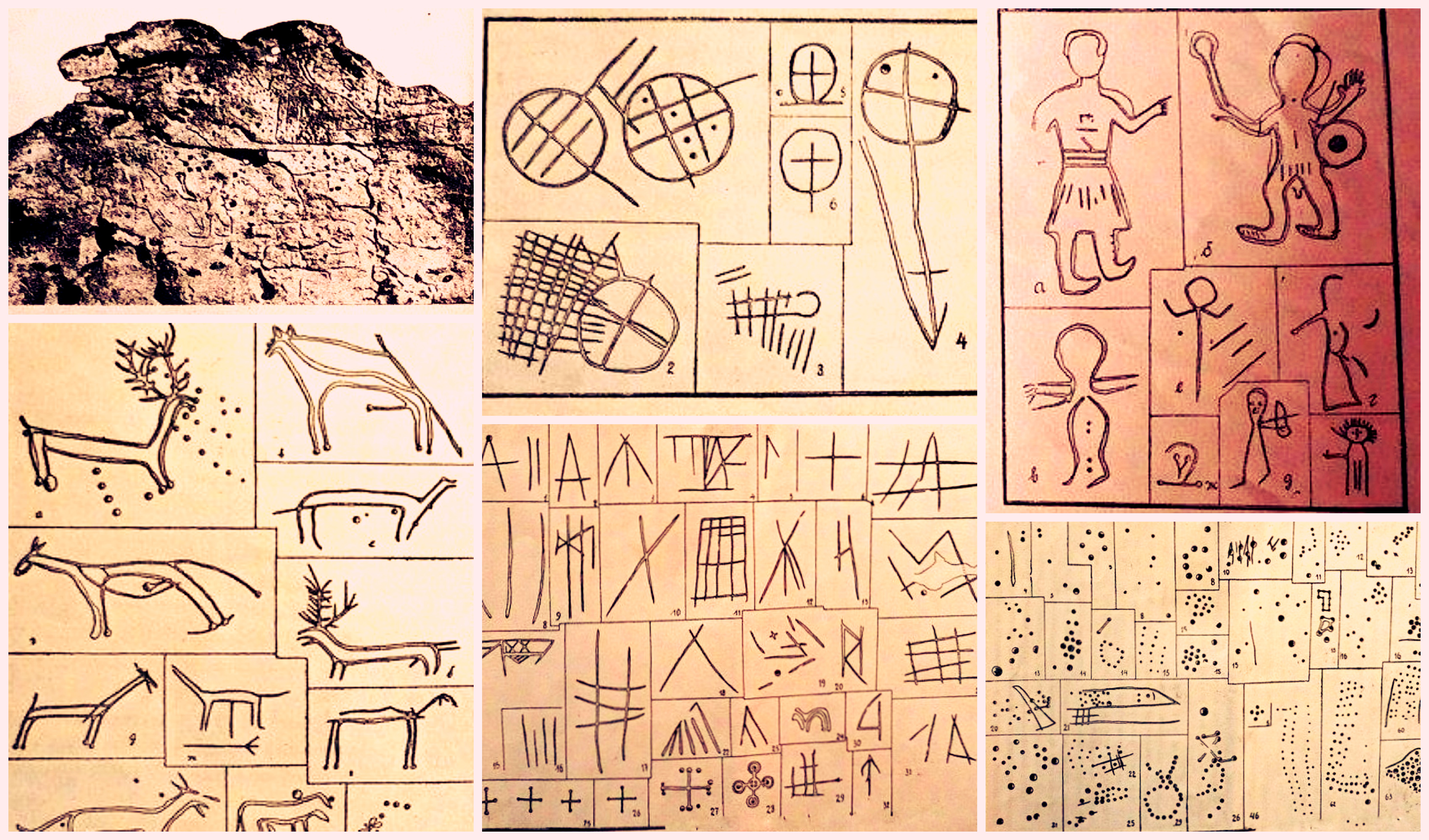 Gortalovo Cave Graphites BG